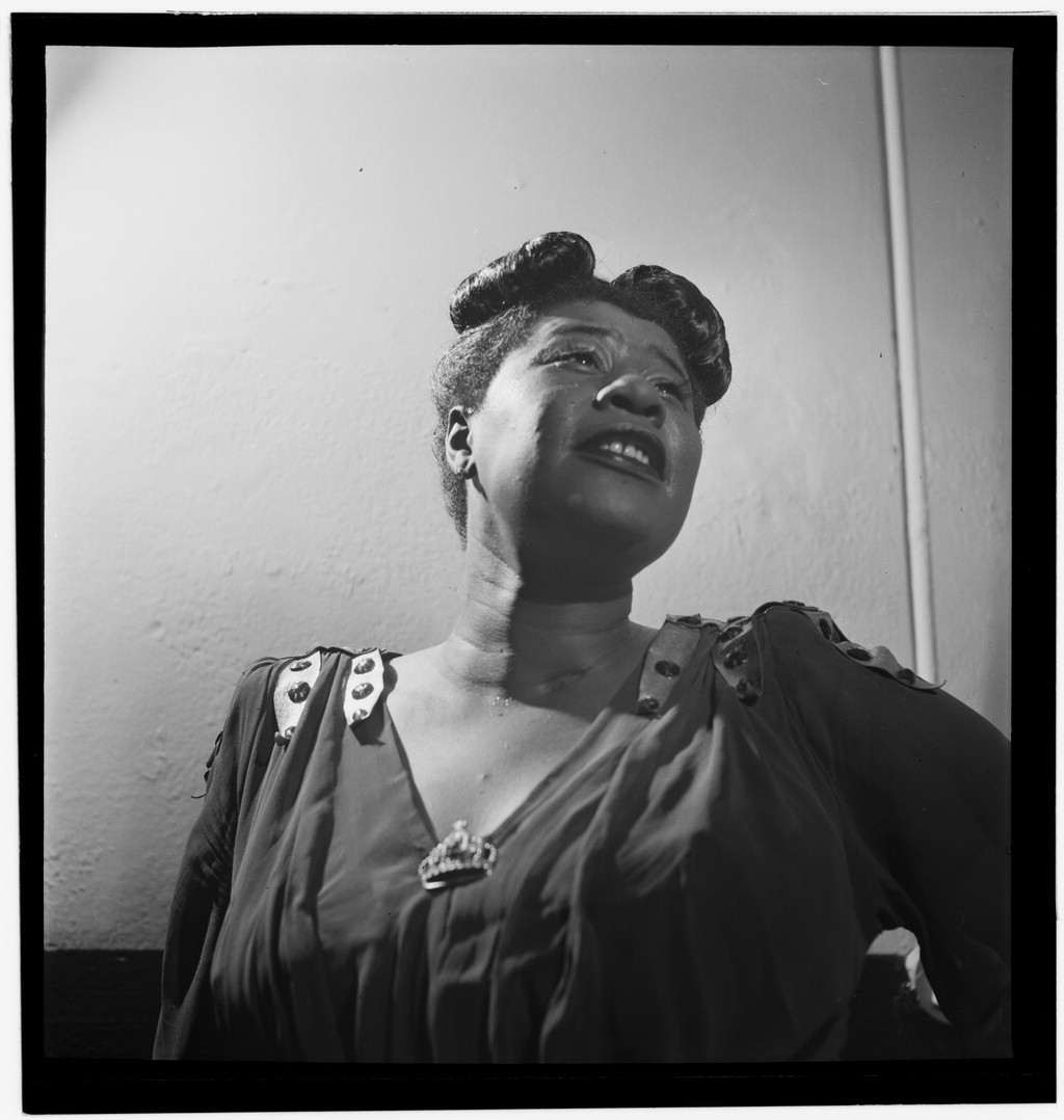 Ella Fitzgerald, New York